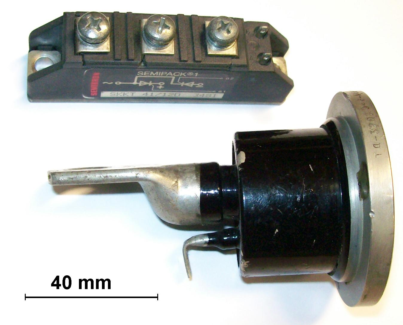 SCR's SKKT41/120 (SEMIKRON, half bridge) and TД-320 (Sovjet Union)